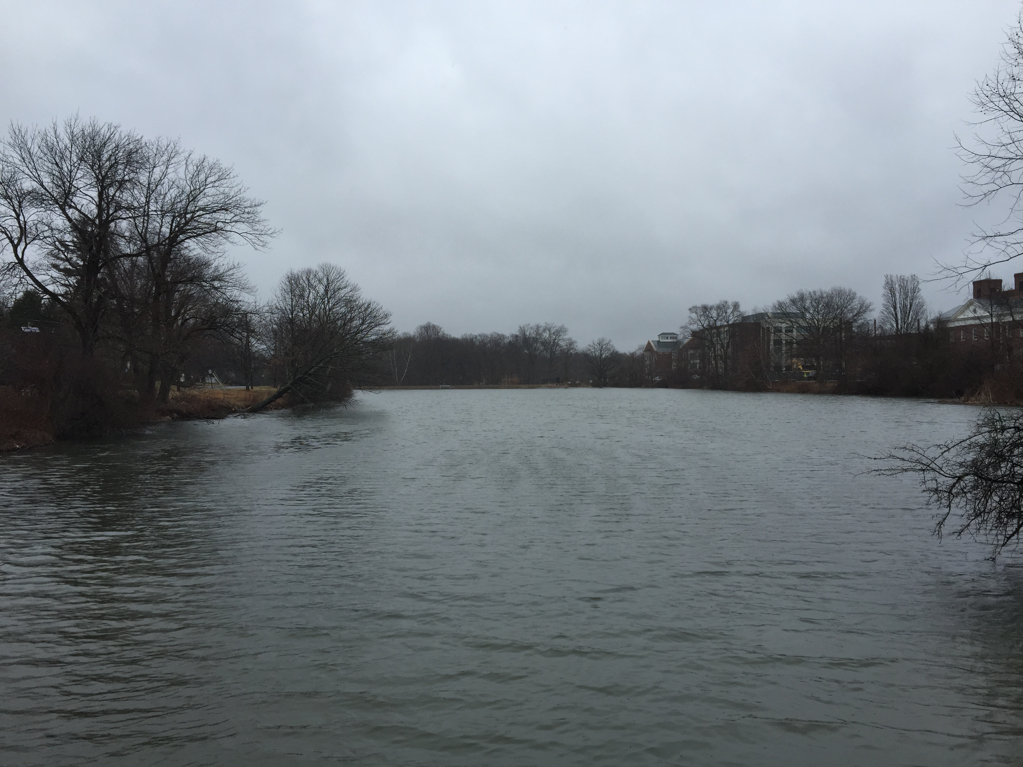 View east from the west end of Lake Ceva on the campus of The College of New Jersey in Ewing, New Jersey